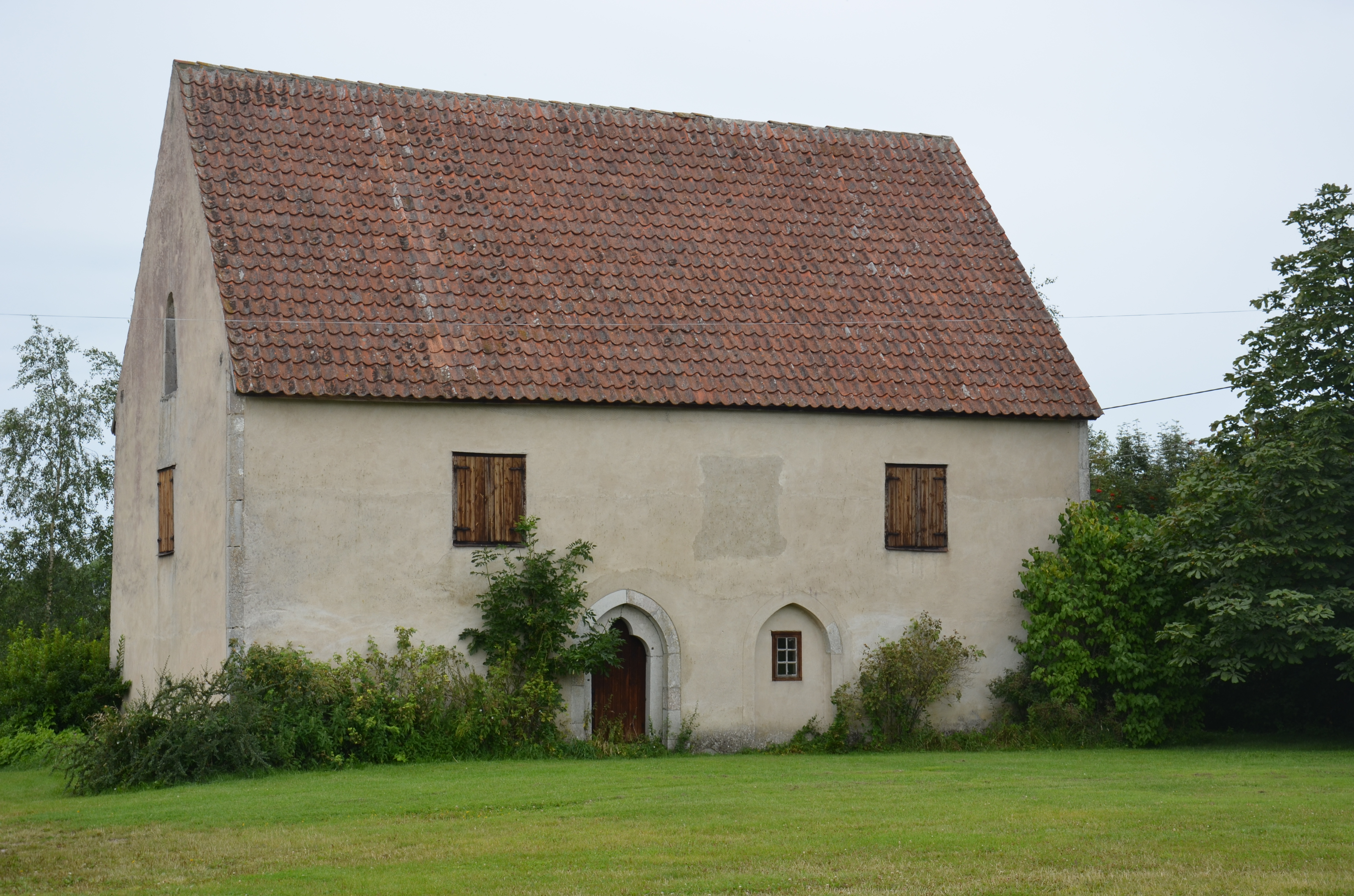 Medeltidshuset på Stora Sojdeby, Fole socken, Gotland